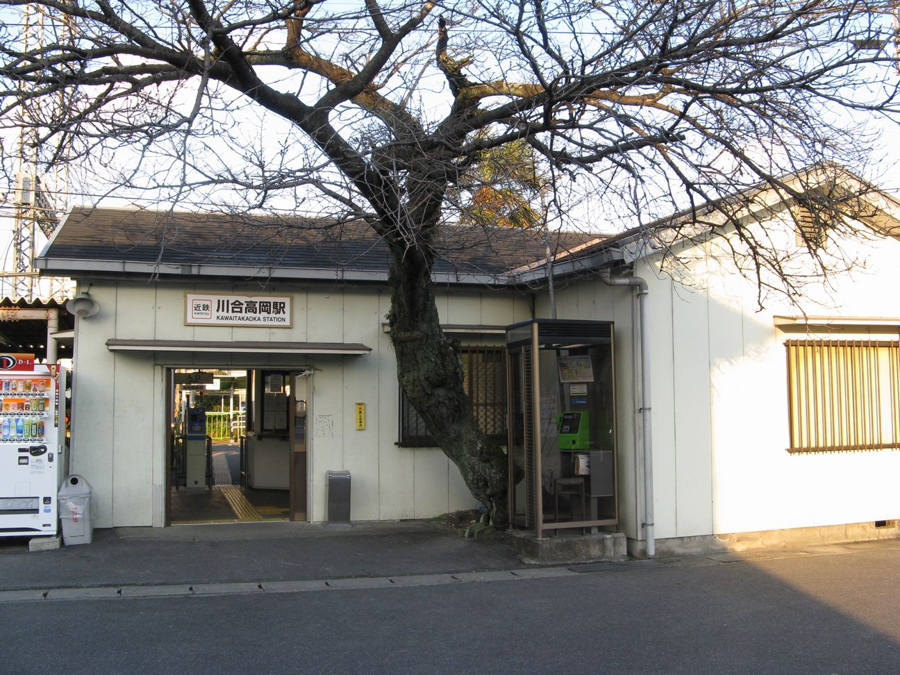 Kawaitakoka Station